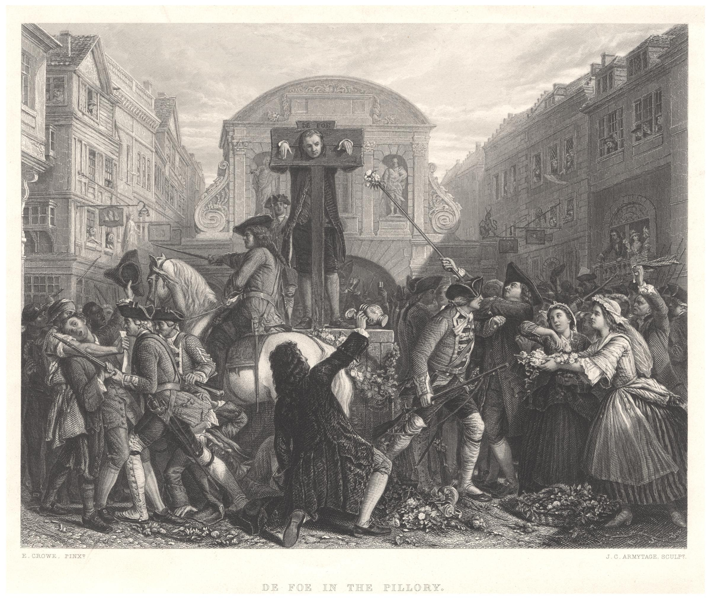 Daniel Defoe, by James Charles Armytage (died 1902). All images in this batch have been confirmed as author died before 1939 according to the official death date listed by the NPG.